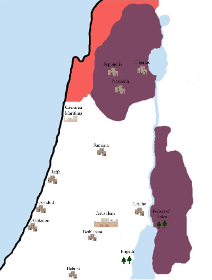 Territory of Herod Antipas, given to him as Tetrarch of Galilee and Perea. He was given the land following the death of his father and the partitioning of Judea into seperate domains. He held this land until his deposition by Caligula, with the insistence of Herod Agrippa, Antipas' nephew.